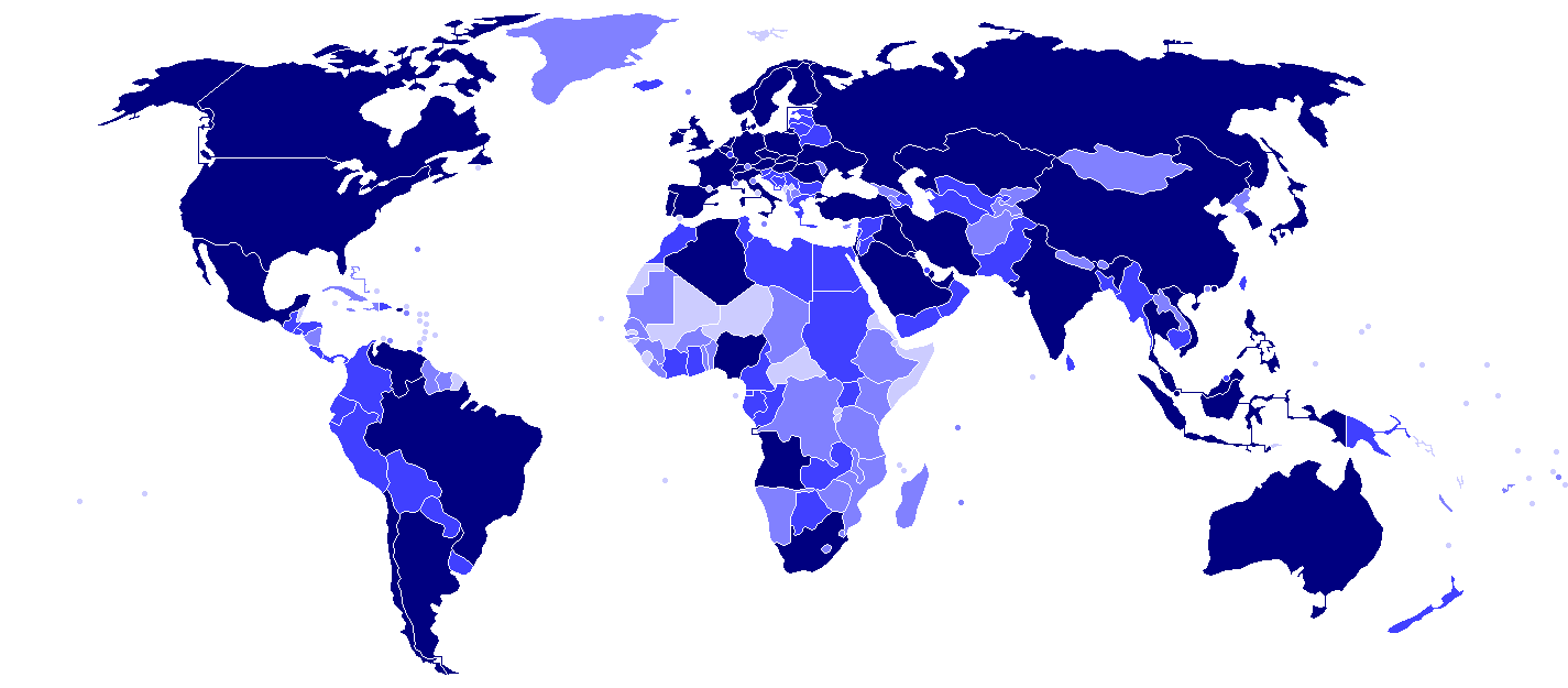 Quartiles based on the 2008 data here ( Quartiles: top quartile second quartile third quartile bottom quartile